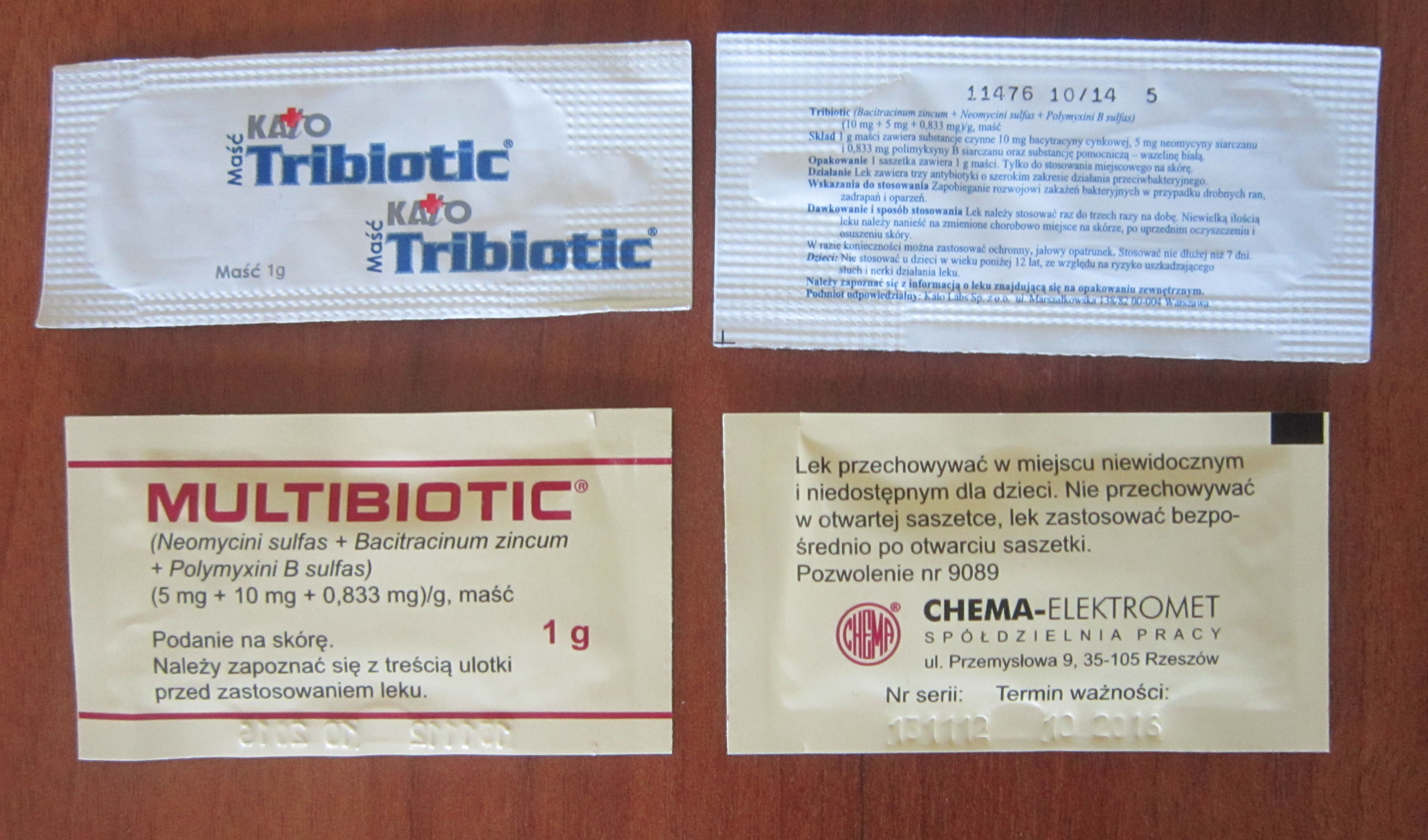 Tribiotic i Multibiotic front and back